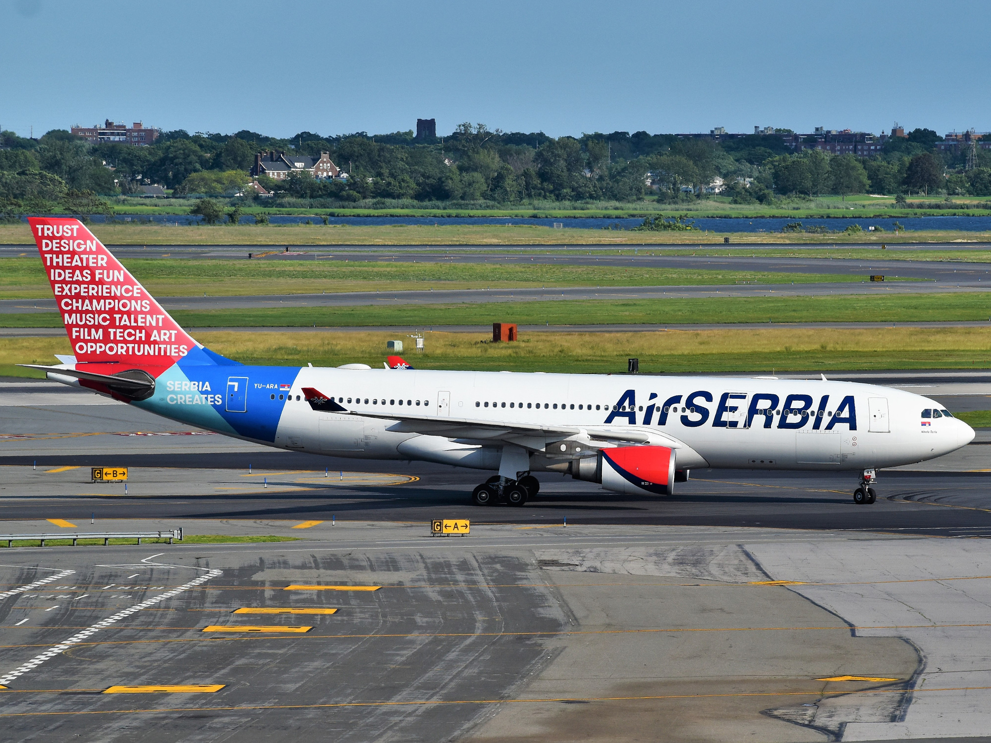 An Air Serbia Airbus A330-200 is taxiing to its hardstand position outside of Terminal 4 at John F. Kennedy International Airport.